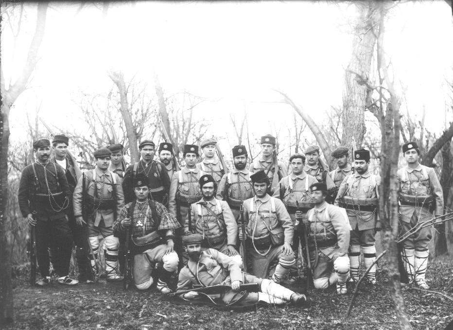 cheta of Luka Ivanov